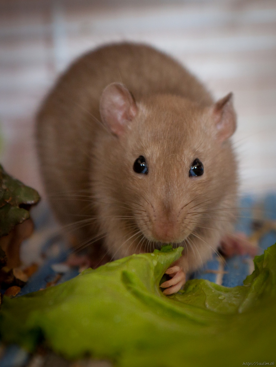 "Burmese" coloured pet rat is eating salad leaves.